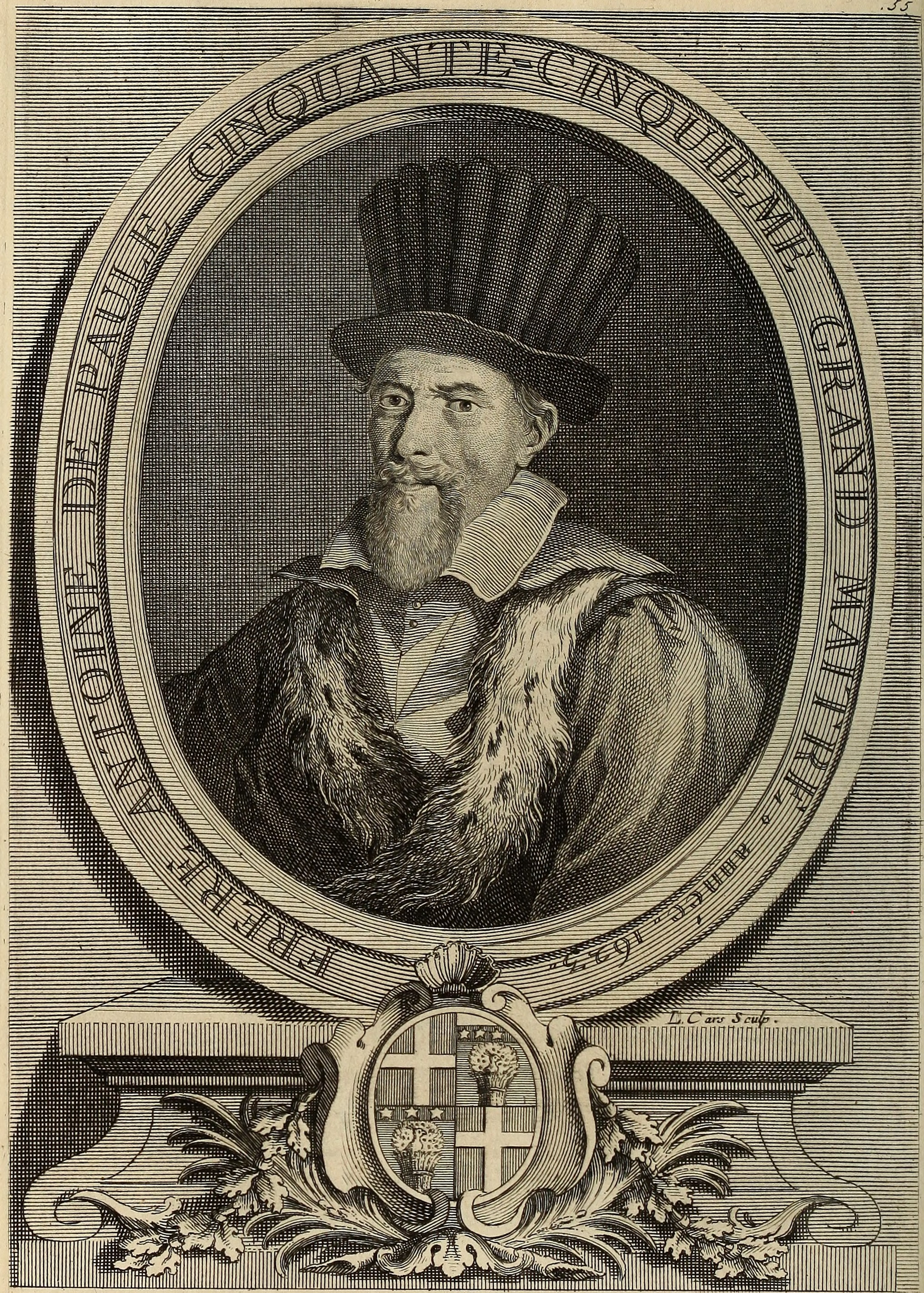 Title: Histoire des Chevaliers Hospitaliers de S. Jean de Jerusalem : appellez depuis les Chevaliers de Rhodes, et aujourd'hui les Chevaliers de Malthe Year: 1726 (1720s) Authors: Vertot abbé de, 1655-1735 Cavagna Sangiuliani di Gualdana, Antonio, conte, 1843-1913, former owner. IU-R Subjects: Knights of Malta Publisher: A Paris : Chez Rollin ... Quillau Pere & Fils ... Desaint ... Text Appearing Before Image: par un Grec que sil ne fe retire promp-renient, fes gens feront coupez par quatre milleTurcs qui nétoient pas éloignez. On fonne la re-traite, Ôc S. Pierre qui a reçu le même avis, formeun efcadron, Ôc regagne le bord de la mer avec le butin ôc les prifbnniers quil avoit faits. 16 ii. Mort de Paul V. auquel Grégoire XV. (uccede, qui confirme par fes Bulles tous les privilèges quefes prédeceffeurs avoient accordez à lOrdre. z 6iz; Nouvelles plaintes de la Langue dItalie, qui fevoit privée de fucceder aux Commanderies vacan-tes par la nomination fouvent anticipée des Papes.Le Commandeur de Chatte-Geffan envoyé àMalte par le Roi Louis XIII. pour demander à.lOrdre la jonction de fes galères pour combattreles Huguenots. Le Chevalier de CafTelani de Montemedan re^çok ordre du Confeil de conduire à Marfeille avecles galères le grand galion fabriqué dans le porcdAmfterdam. Le Grand Maître de Vignacour étant à la chafTeôc ppurfuivant un lièvre dans la plus grande cha- Text Appearing After Image: '